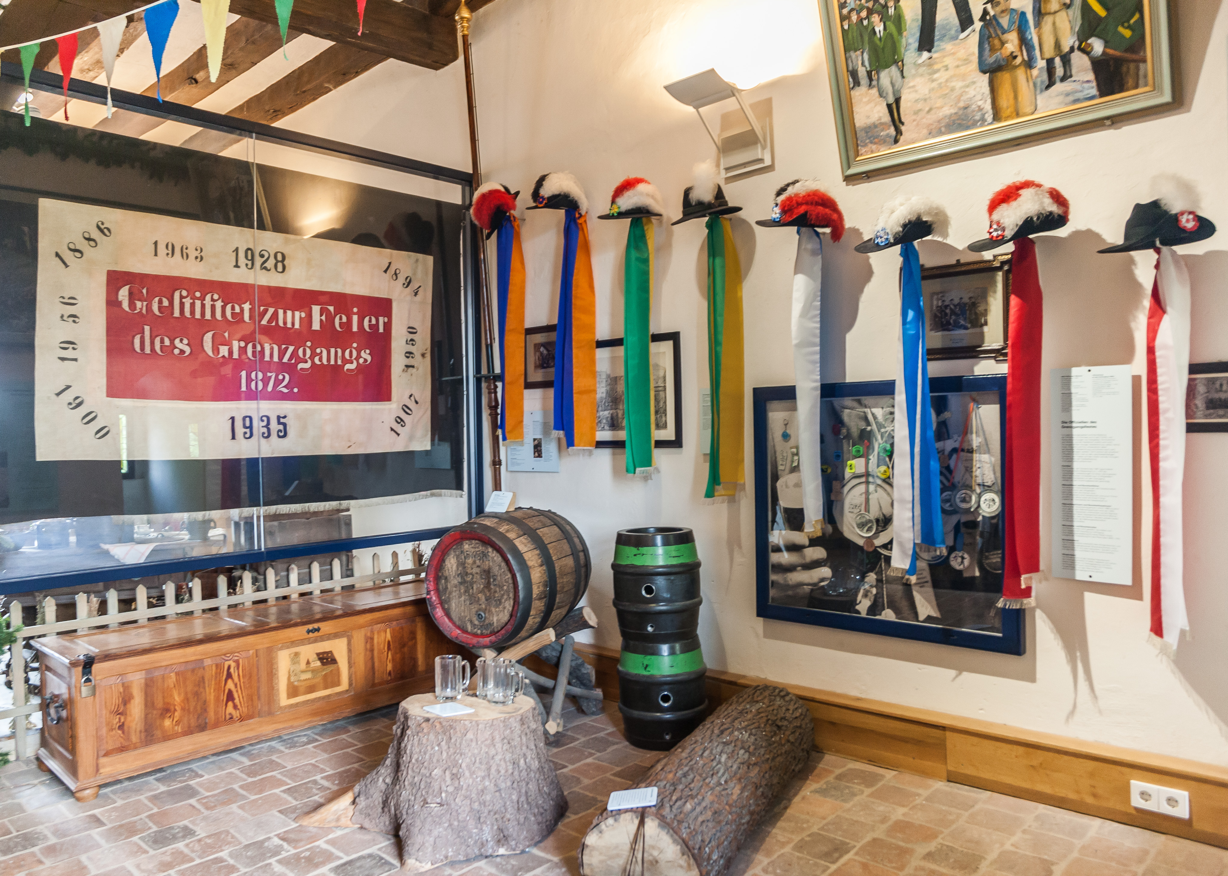 Grenzgang room in Hinterlandmuseum, Biedenkopf, Germany